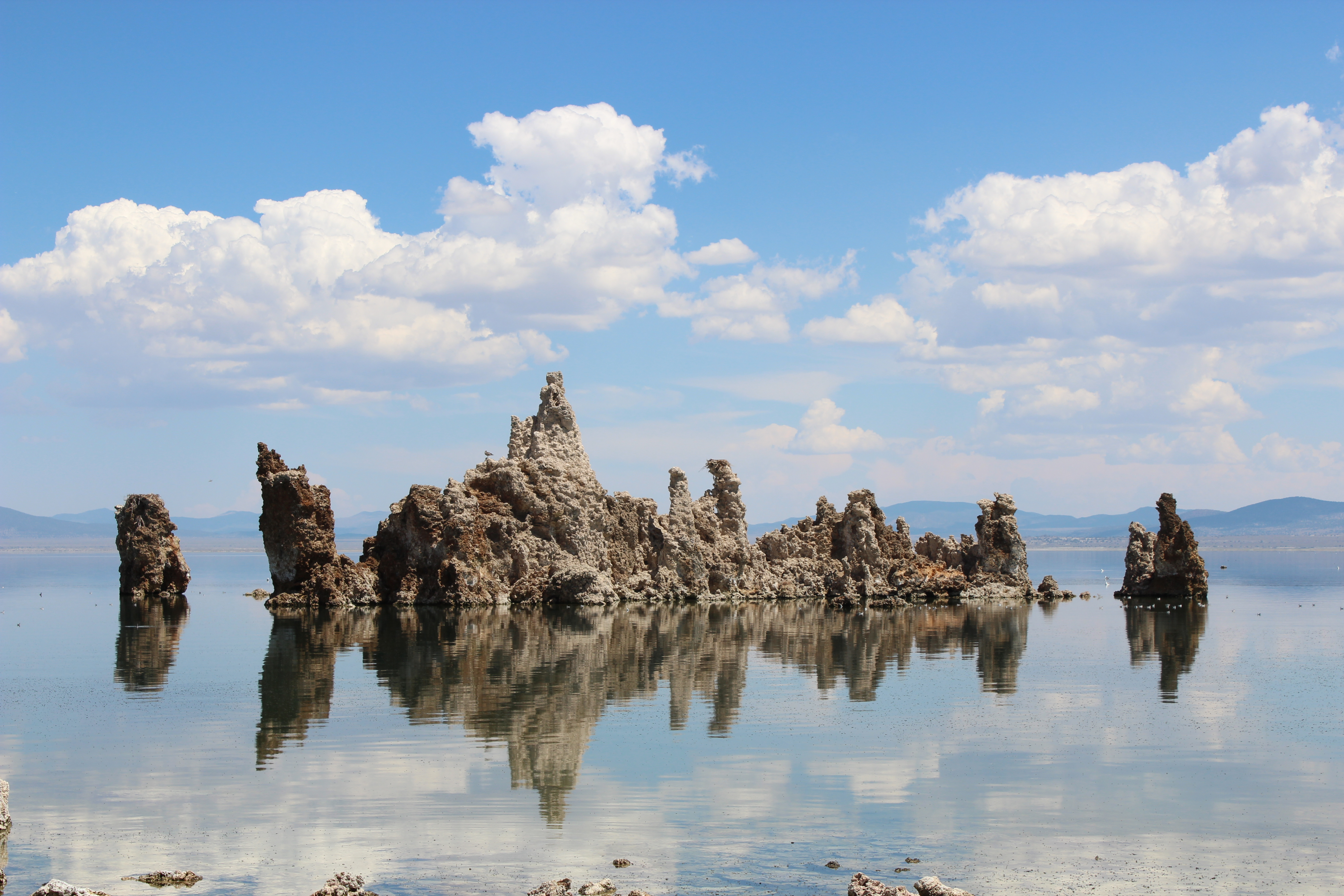 Tufa columns in Mono Lake — Mono County, eastern California. Within Mono Lake Tufa State Natural Reserve, Eastern Sierra region. Photography: August 2012.